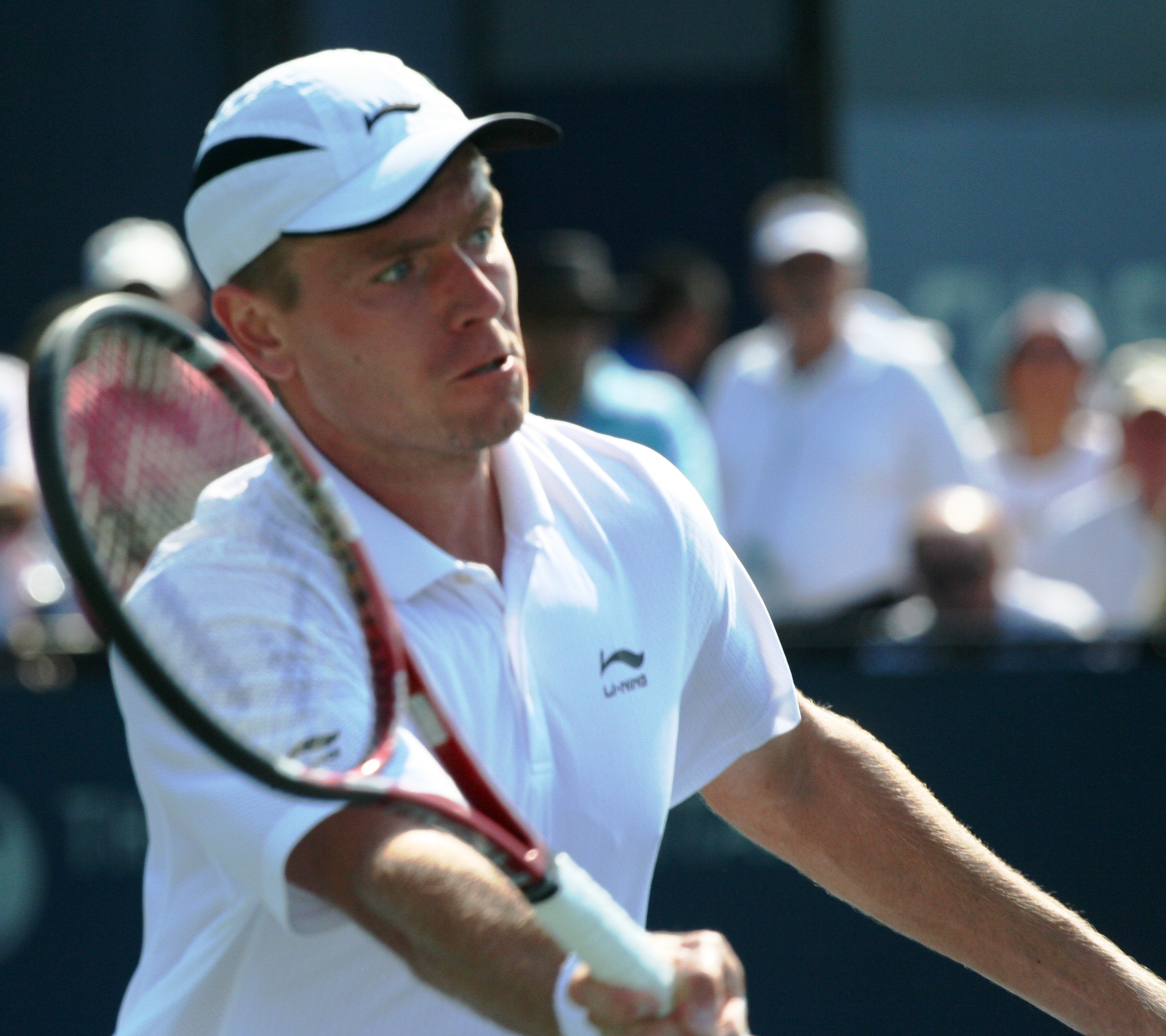 U.S. Open Tuesday, Aug. 31, 2010